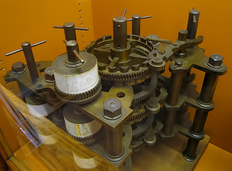 Part of Charles Babbage's Difference Engine assembled after his death by Babbage's son, using parts found in his laboratory. The brass parts were machined by the toolmaker Joseph Clement. Babbage never completed his difference engine, partly due to problems with friction and machining accuracy, but also because he kept changing the design. Henry Provost Babbage inherited the pieces following his father's death in 1871, and some years later in 1879 he assembled several working sections of the full machine. Possibly as many as seven assembled sections exist. This portion, in the Whipple Museum of the History of Science of the University of Cambridge, demonstrates how the addition and carry mechanism works. In the photograph, part of the left hand side is obscured by reflections from the glass display case.